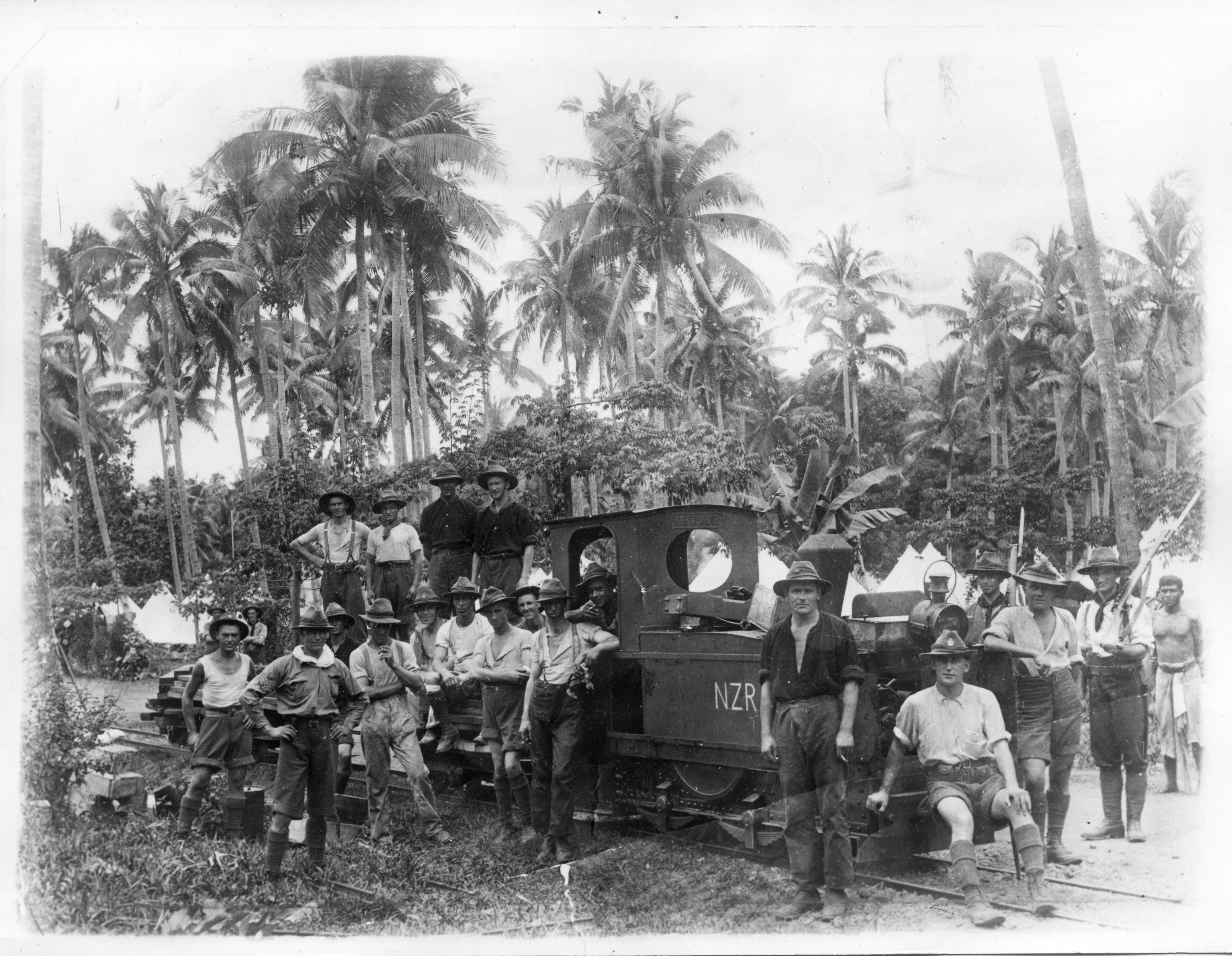 Members of the New Zealand Railway Engineers unit in Samoa pose alongside their commandeered German narrow-gauge locomotive, now bearing the letters 'NZR' (New Zealand Railways). The image itself comes from a series of NZ Railways negatives. Archives Reference: AAVK 6389 W3493 Box 91/ C1370 Material from Archives New Zealand Caption information from